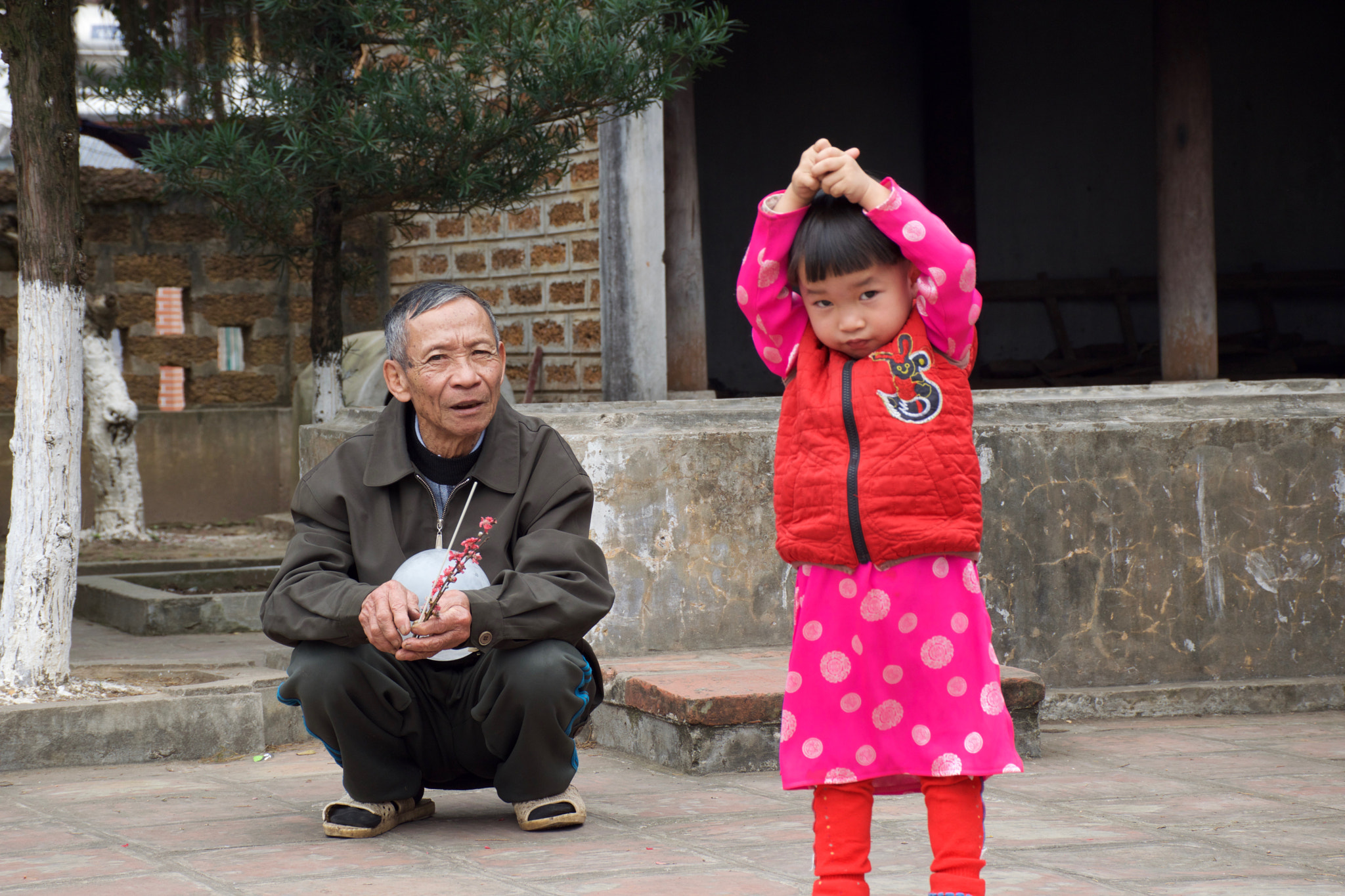 500px provided description: This is a libre photo. Feel free to copy it, to modify it, to use it as you want, as long as you say my name and give the same freedom to your public (whenever it is a modified version of my photo or not). For more details about what you can and cannot do, please read the Free Art License: [#people ,#vietnam ,#duong lam]